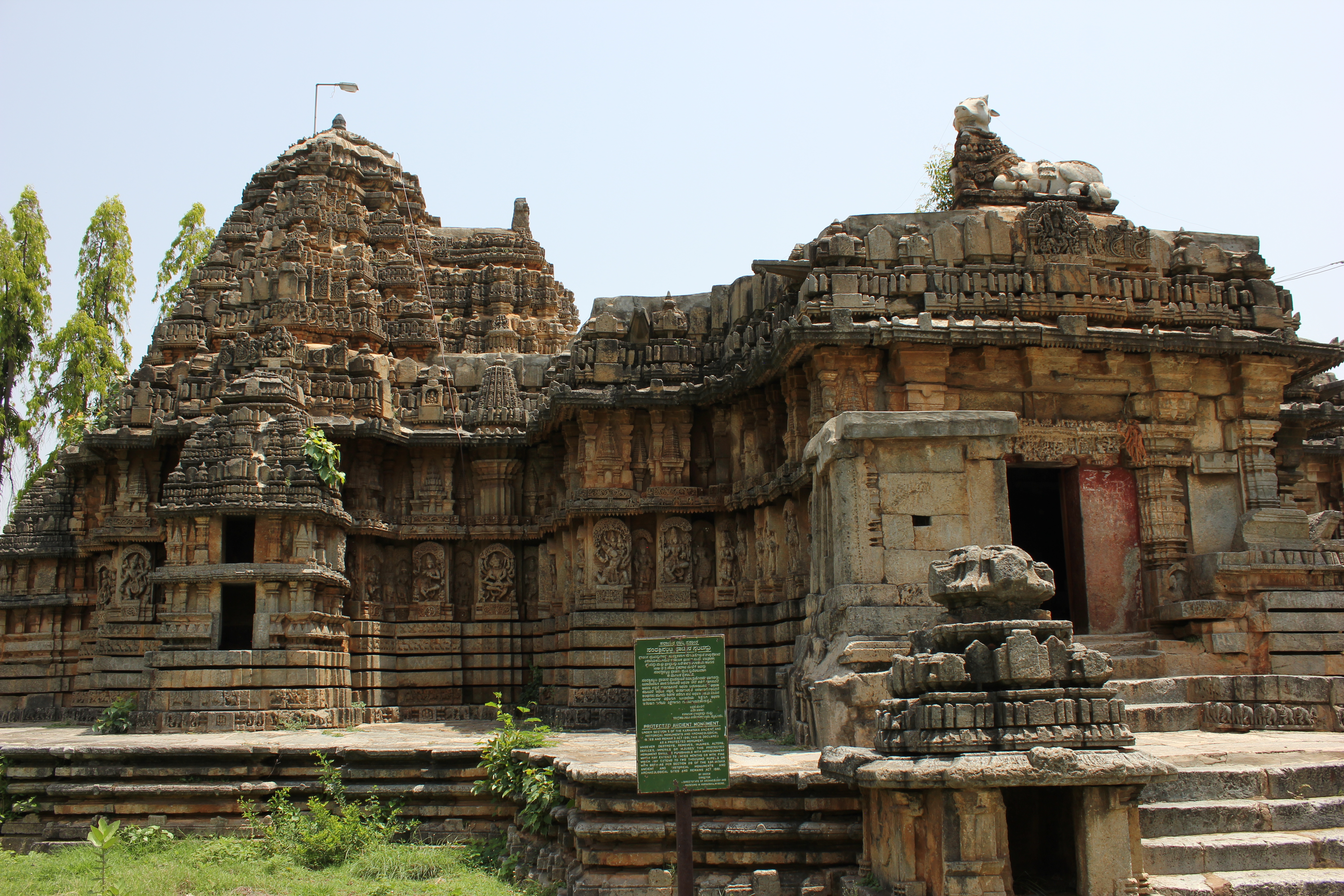 This photograph was taken by me at Haranhalli, Hassan district, Karnataka state, India. The temple, whose main deity is the Hindu god Shiva (in the form of the Linga) , was built in 1235 A.D. by the Hoysala Empire King Vira Someshwara.